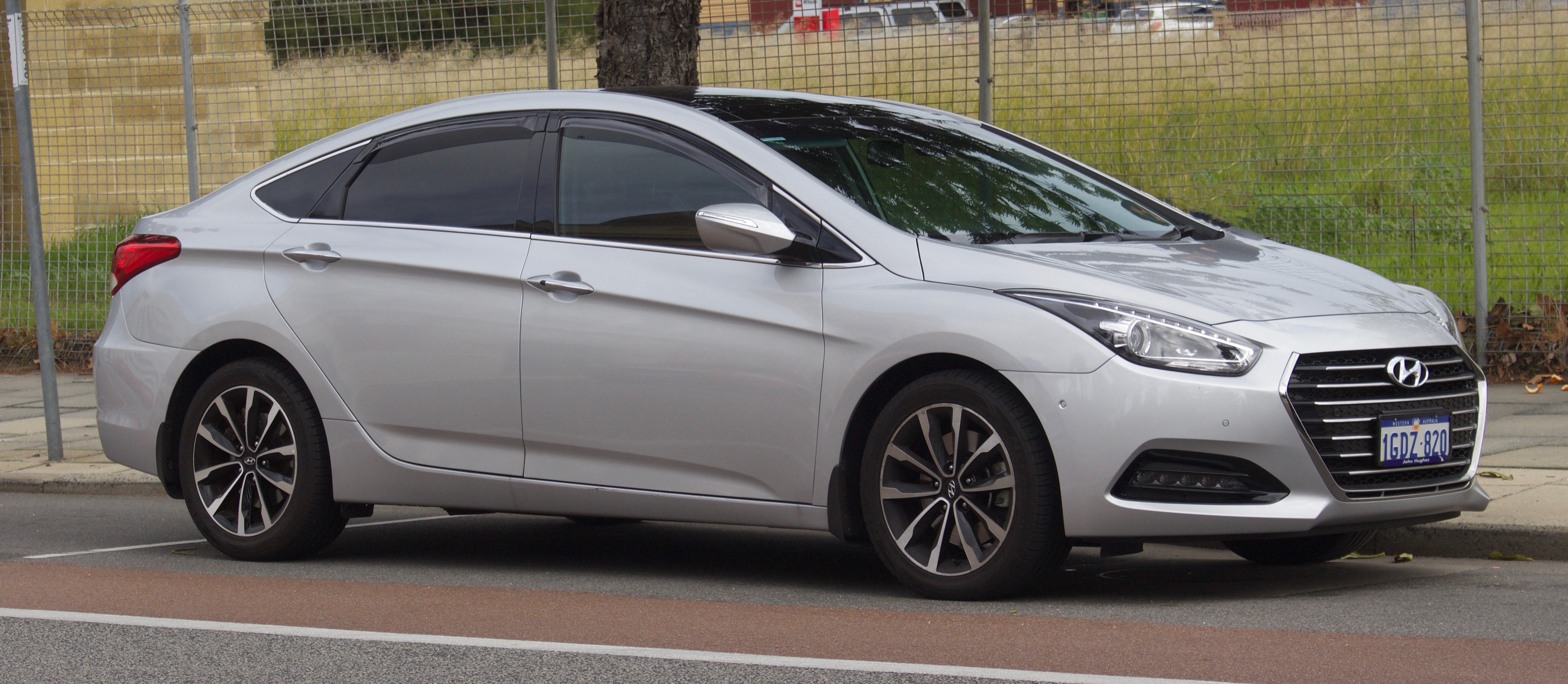 2016 Hyundai i40 (VF4 Series II) Premium sedan. Photographed in Fremantle, Western Australia, Australia.